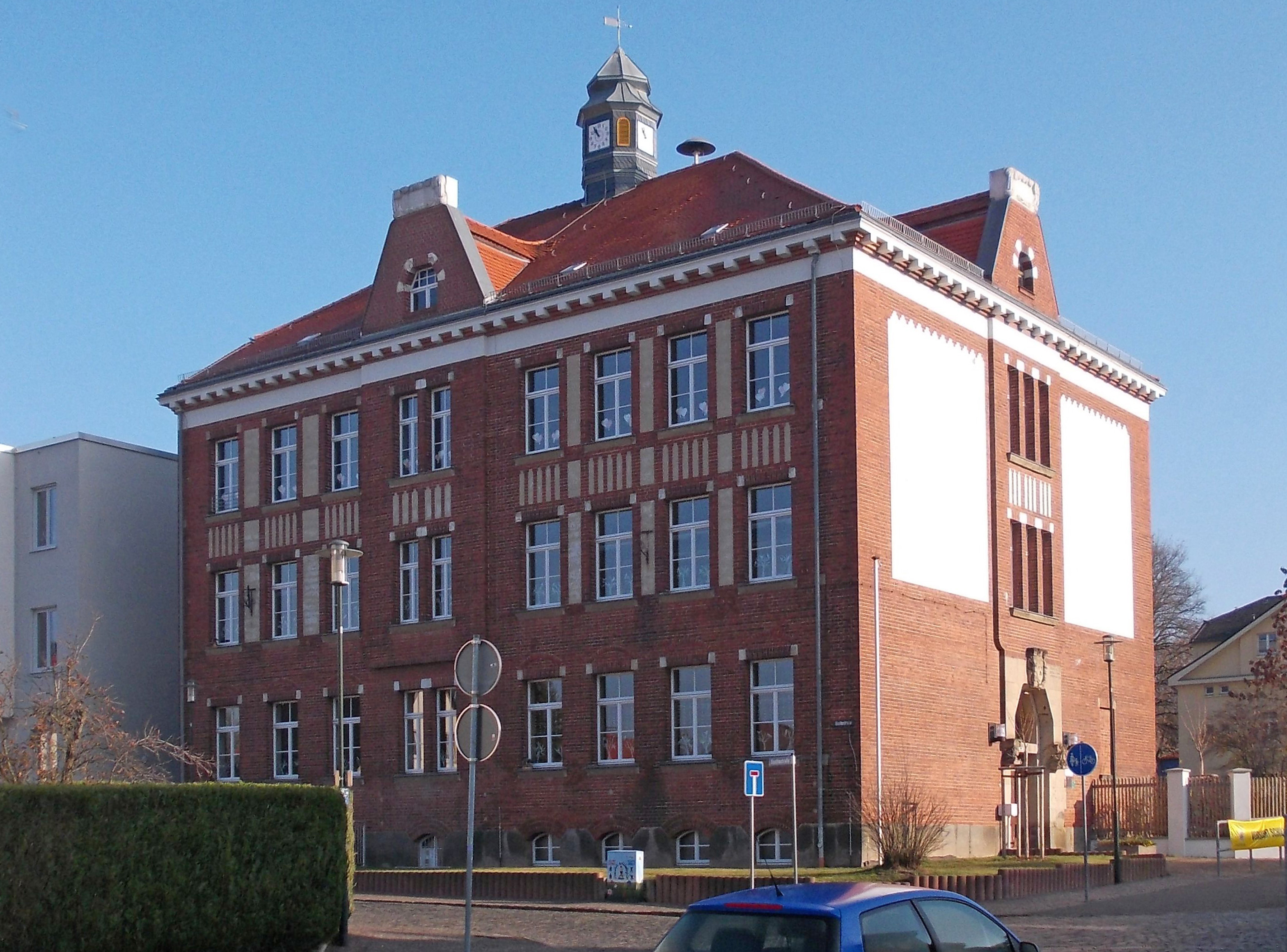 Markkleeberg-Ost primary school (Leipzig district, Saxony)